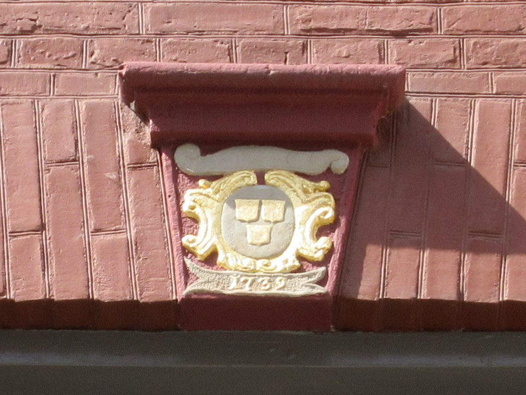 Keystone of Valkendorfsgade 36 in Copenhagen, Denmark